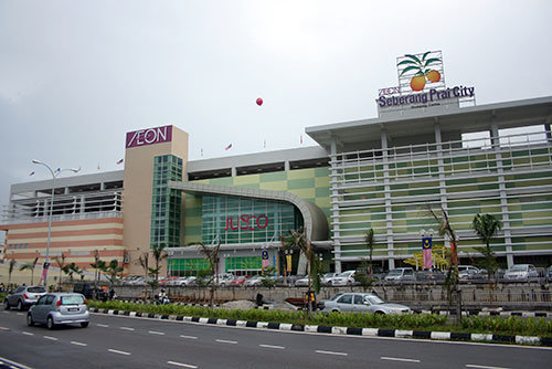 Description: Aeon Jusco, Bukit Mertajam Source: self-made Author : John Tan